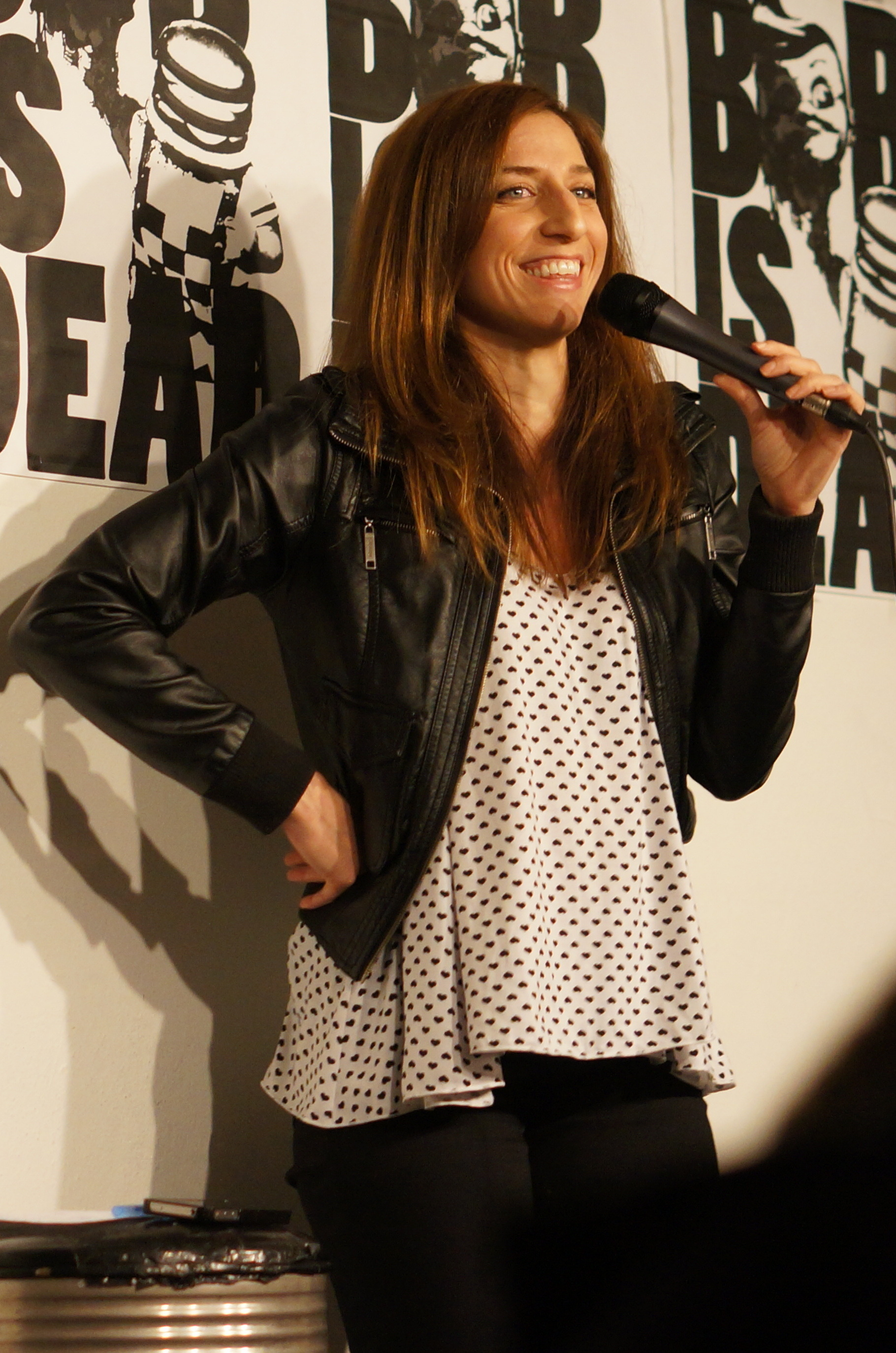 Chelsea Peretti performing at Meltdown Comics on 1.2.13. Photograph by Kevin Porter